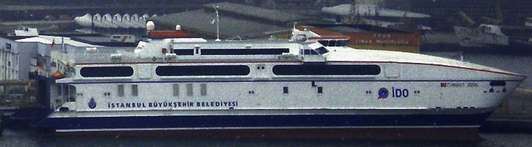 Ferry IMO 9188867 docked at Bandirma